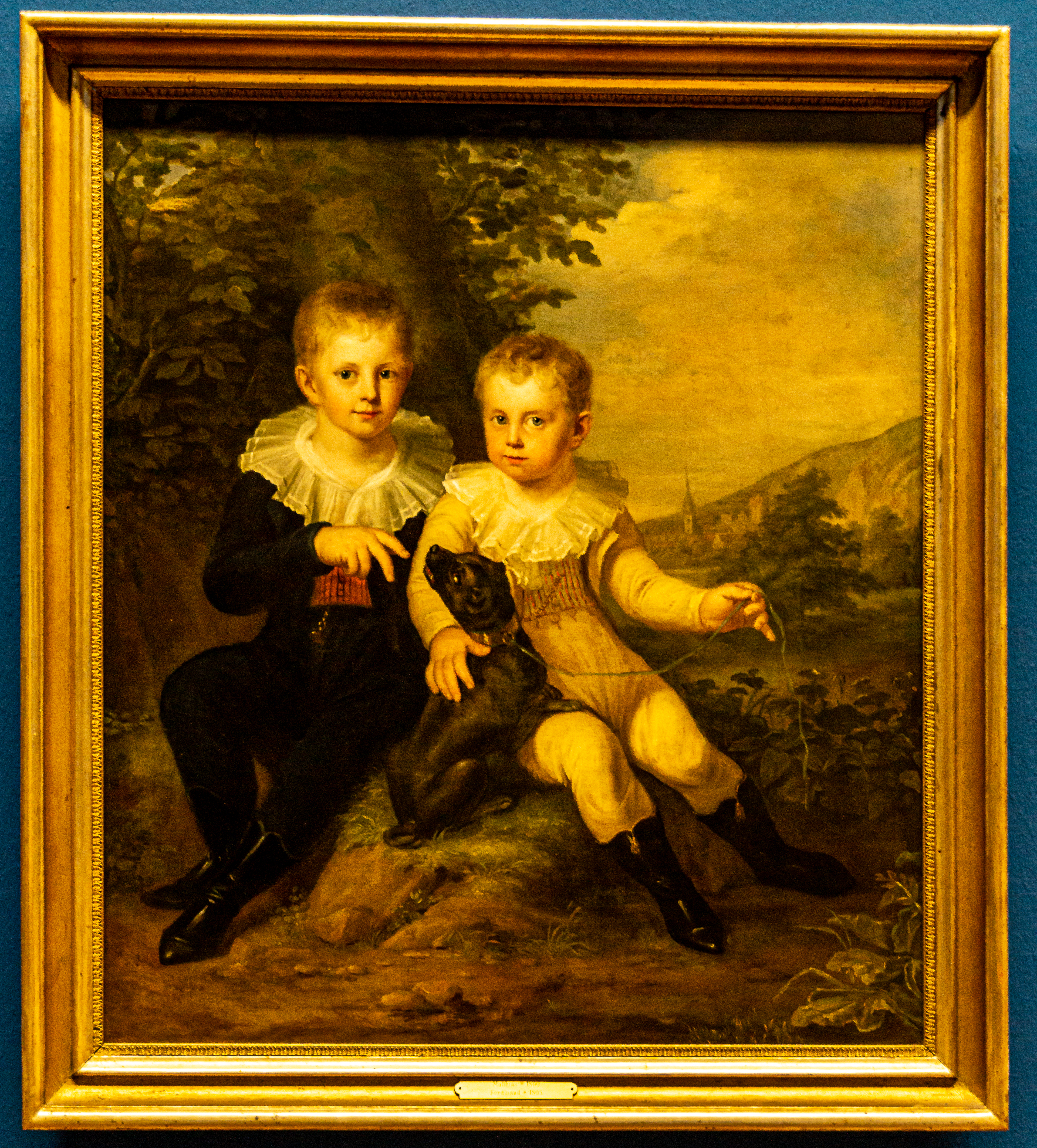 Matthias und Ferdinand, Grafen von Galen